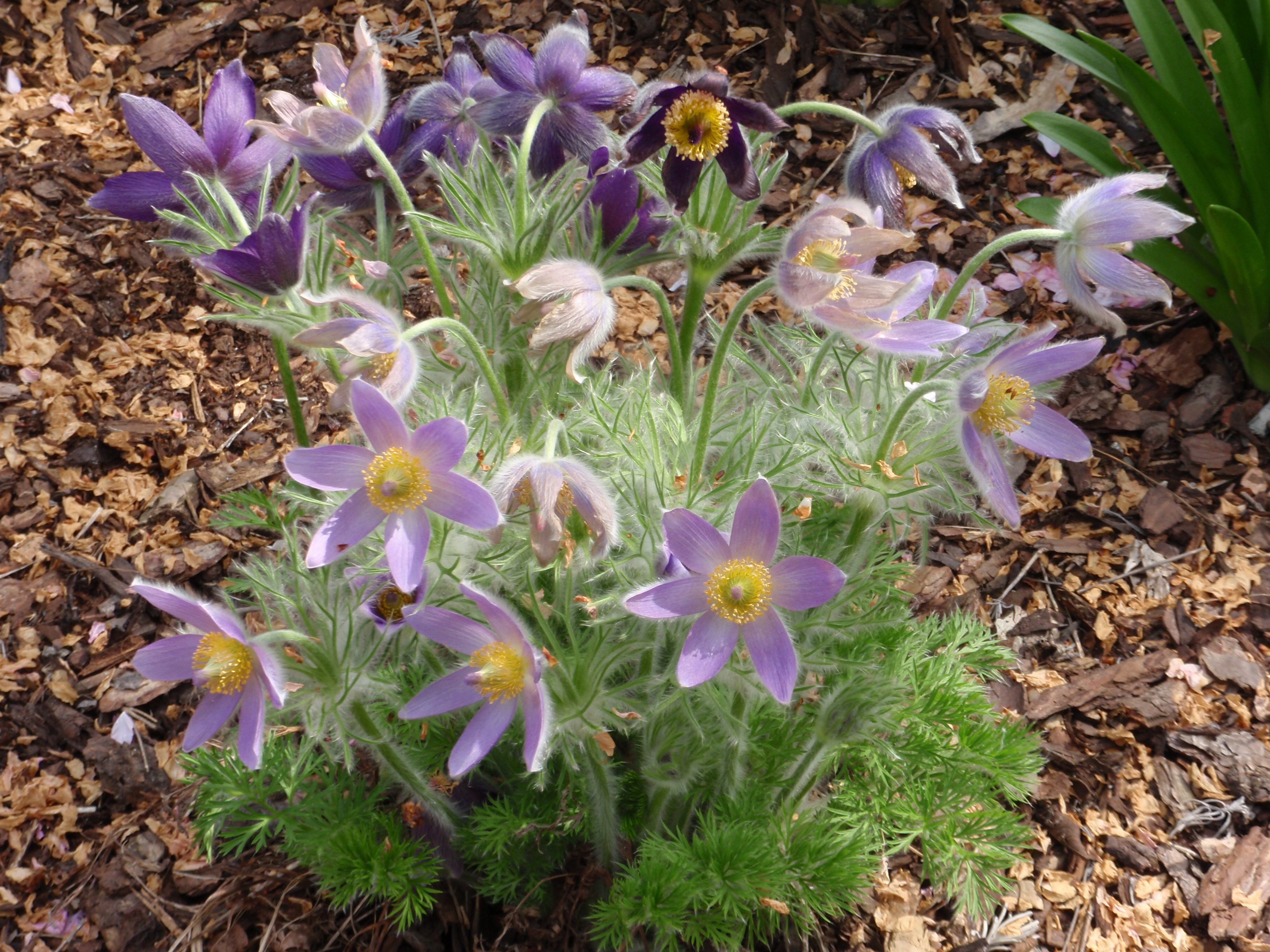 Pasque flower on easter sunday 2009 in the Luisenpark Mannheim (Germany)